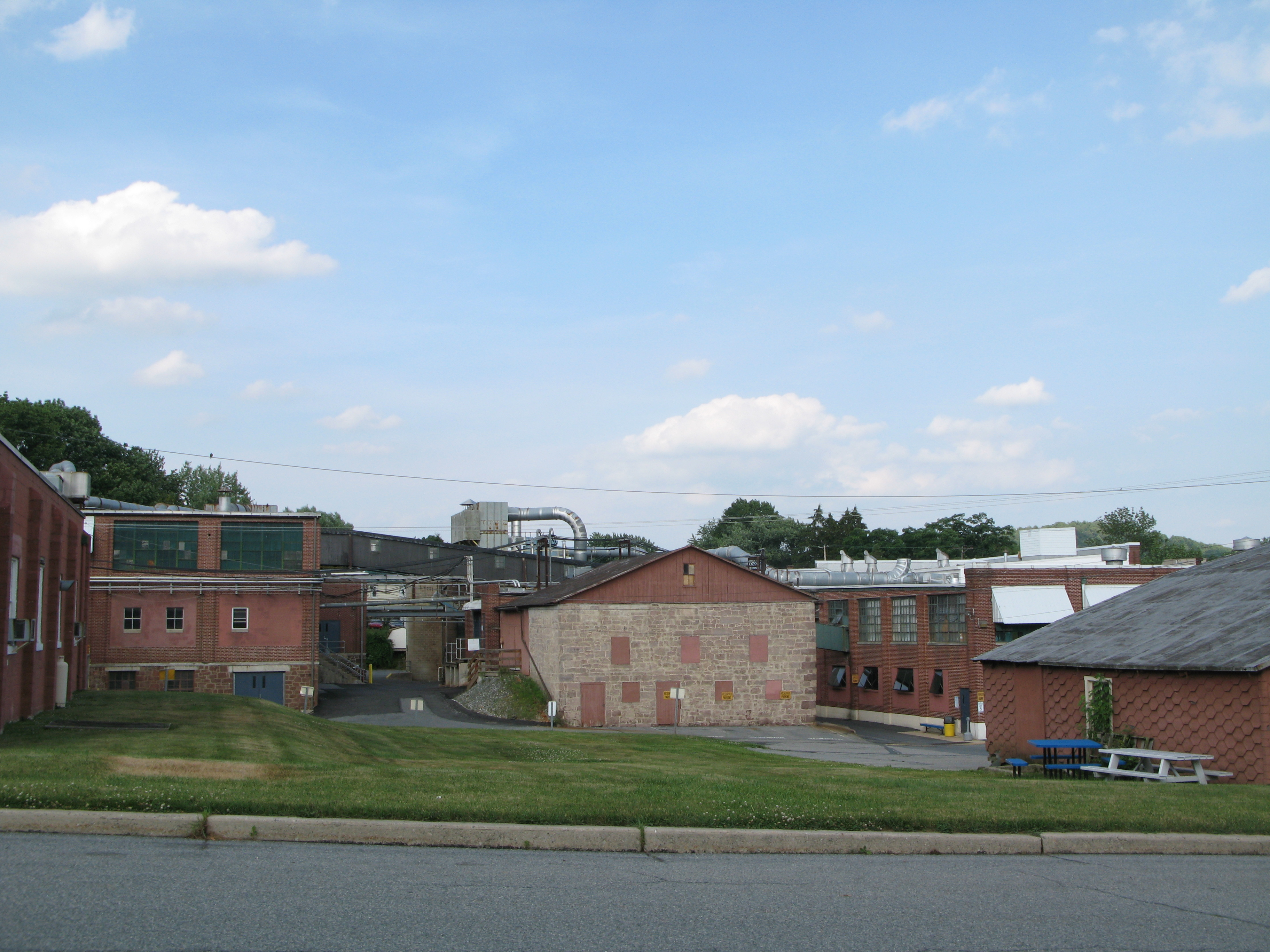 Bollmans Hat Factory in Adamstown, Pennsylvania